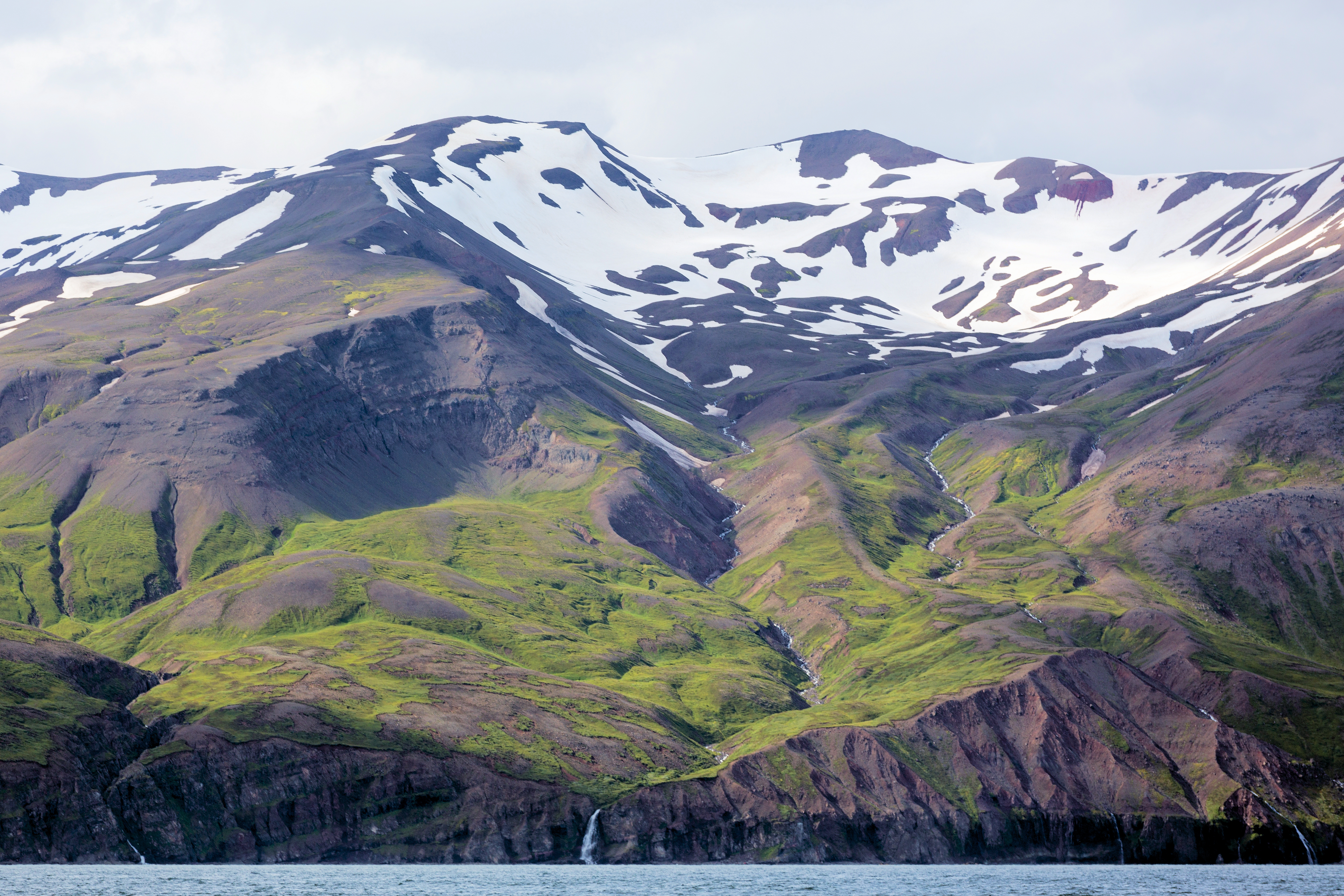 Landscape looking west from Skjálfandi (Víknafjöll or Kinnarfjöll)